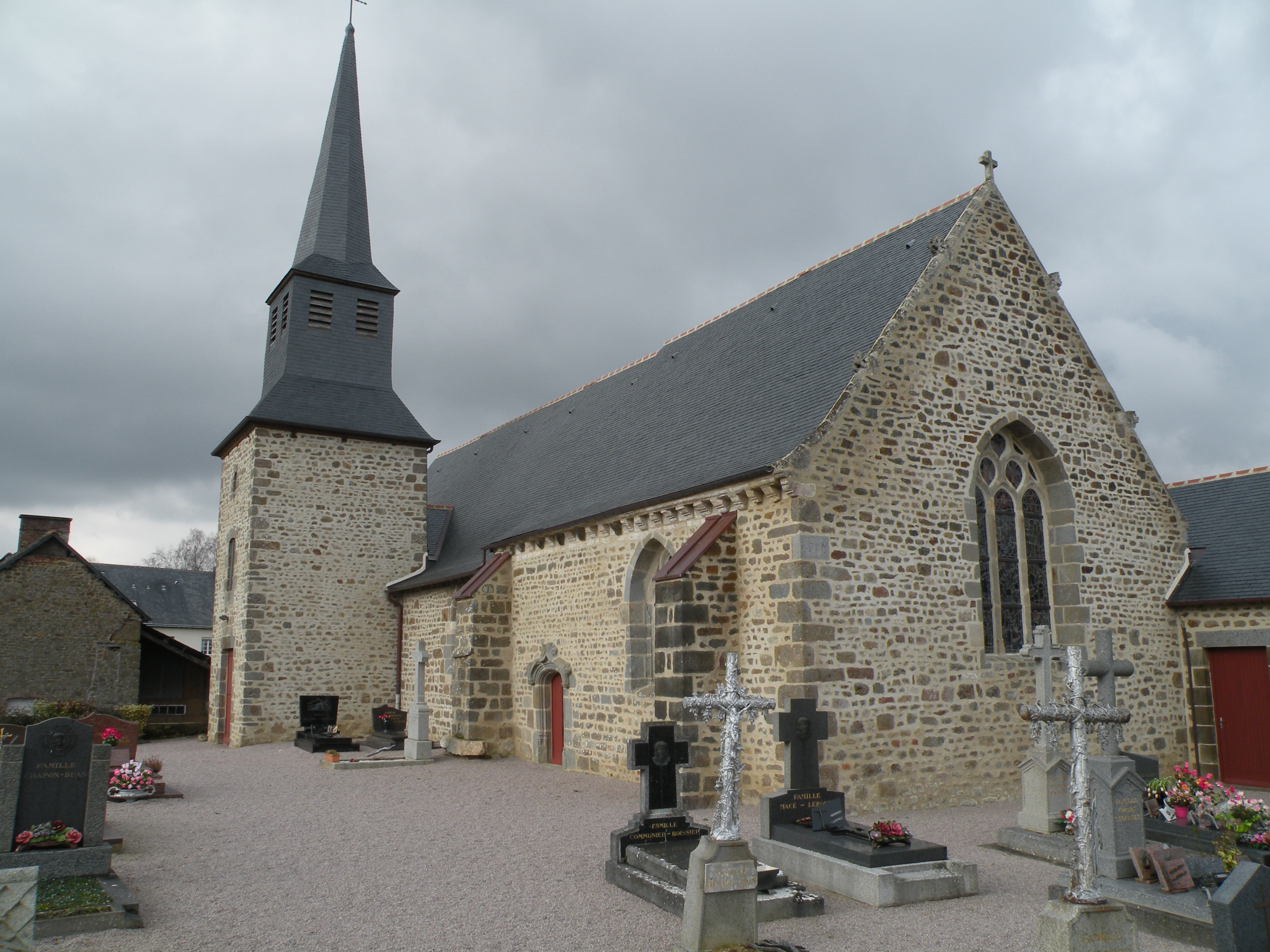 Church and cemetery of Saint-Symphorien.